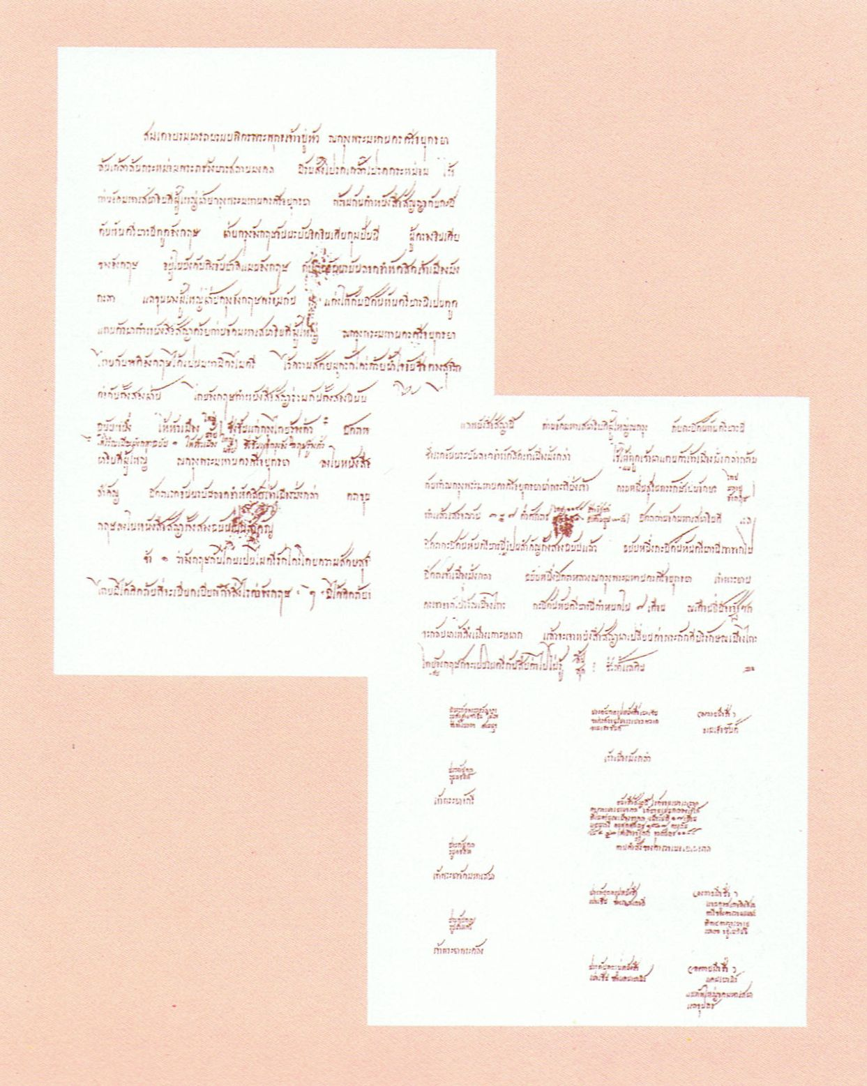 What: A Thai duplicate of the Burney Treaty. Where: The file is scanned from: The Secretariat of the Cabinet. (1995). The Royal Emblems. Bangkok : The Secretariat of the Cabinet Publishing House. ISBN 974-7771-632.